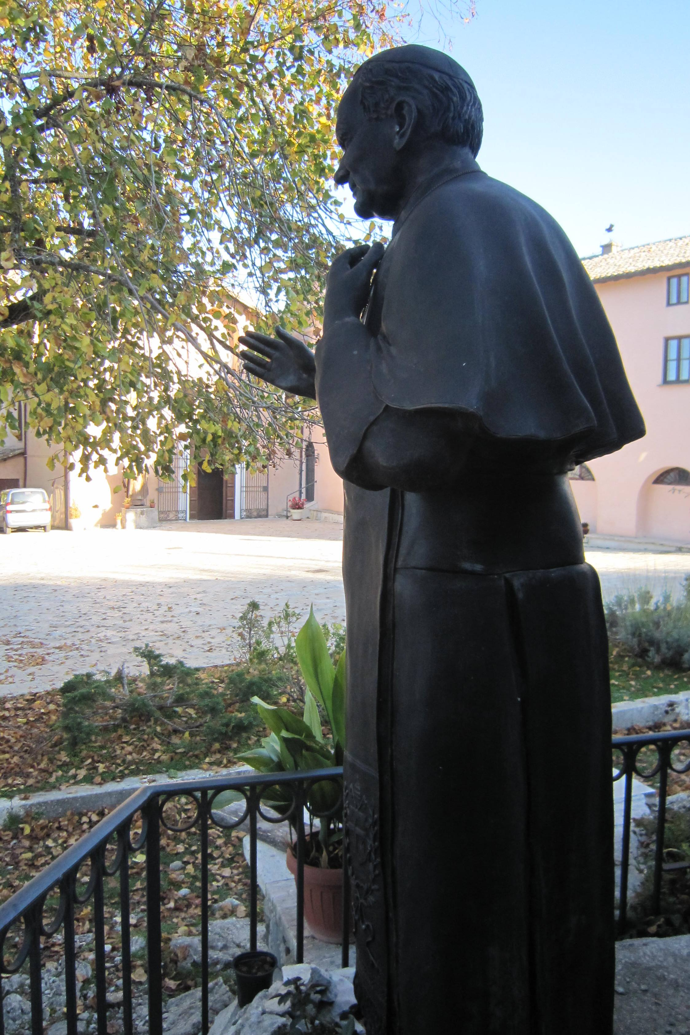 MENTORELLA statua papa